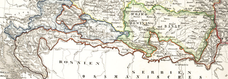 Historic map of the military frontier of Austria-Hungary, also named Krajina, and of Vojvodina